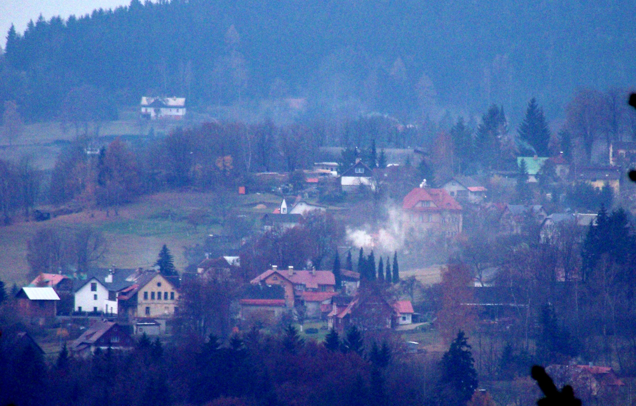 Velké Hamry, Jablonec nad Nisou District, Liberec Region, the Czech Republic. A view from Šulík's Rock.